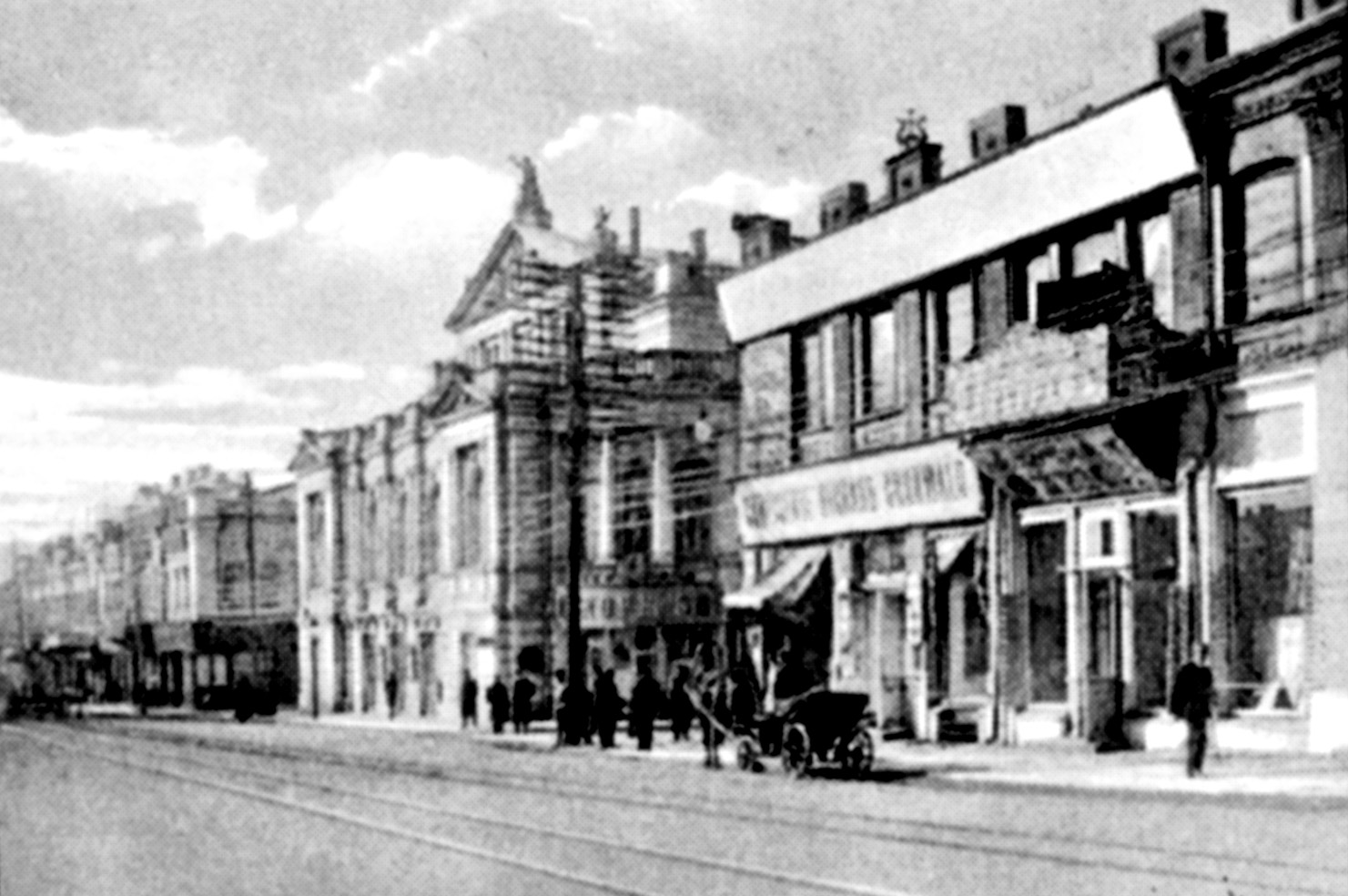 Old picture